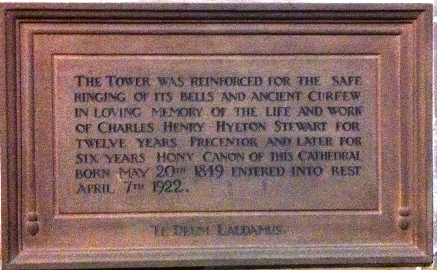 The tower was reinforced for the safe ringing of its bells and ancient curfew in loving memory of the life and work of Charles Henry Hylton Stewart for twelve years precentor and later for six years honorary canon of this cathedral. Born 20 May 1849. Entered into rest 7 April 1922.